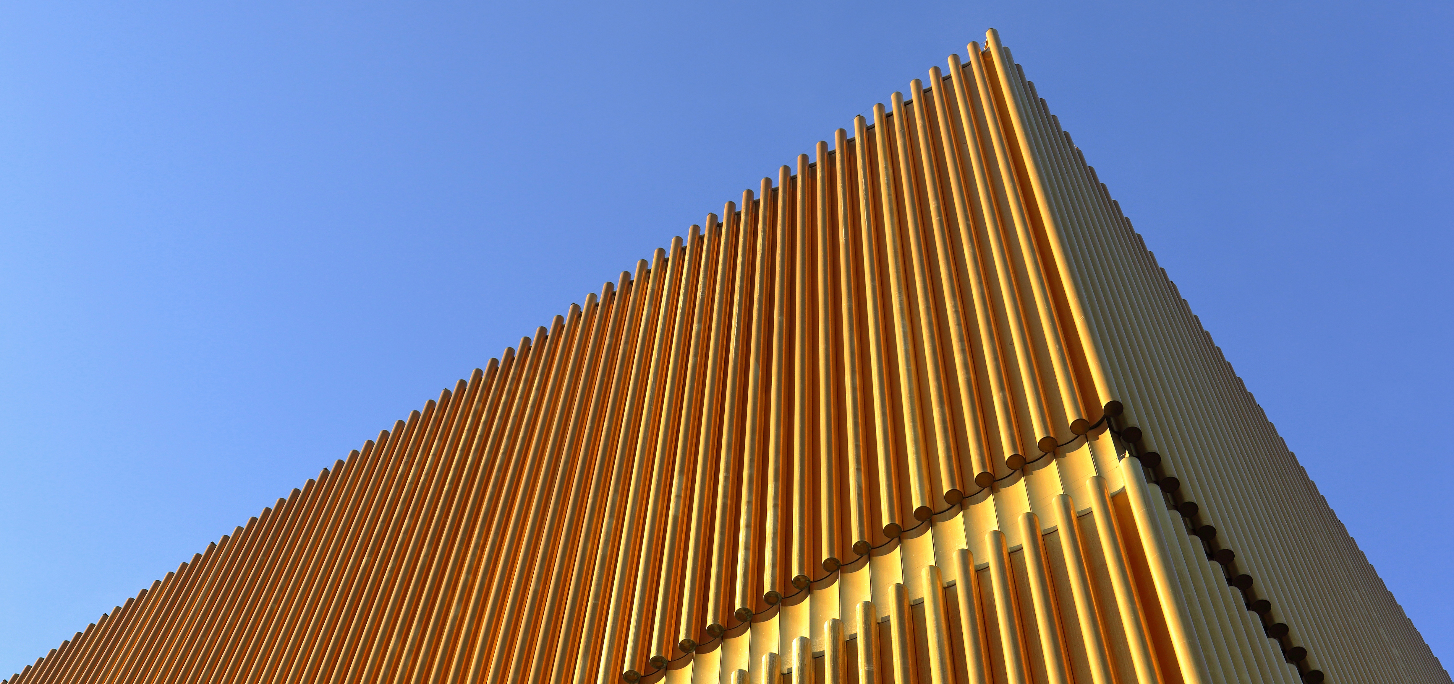 Lenbachhaus, Munich: wing by Foster and Partners.